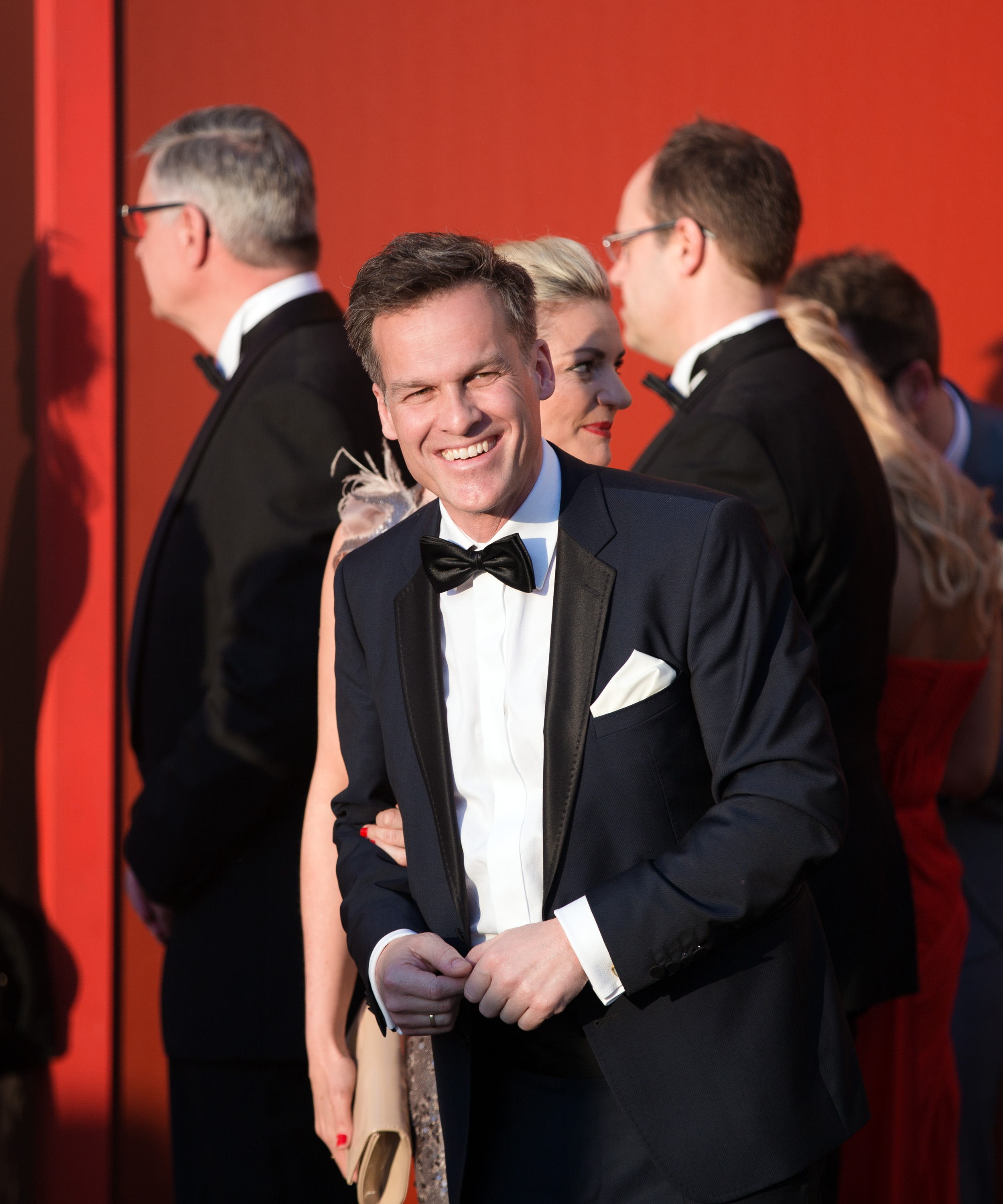 Tarek Leitner on the red carpet of the Romy TV awards 2016 at Hofburg Palace in Vienna, Austria.